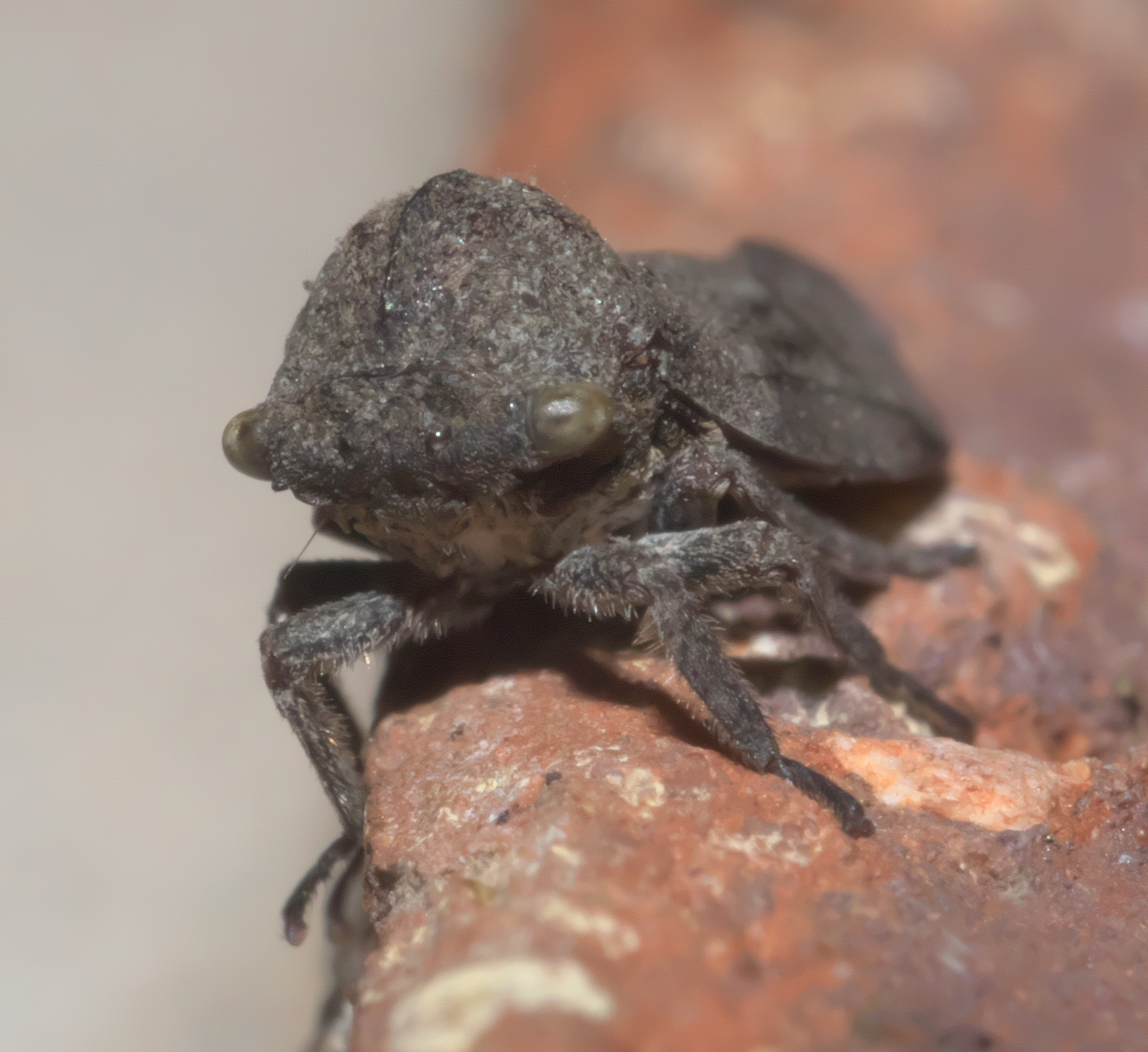 Microcentrus caryae, Family: Treehoppers, ID Confidence: 98